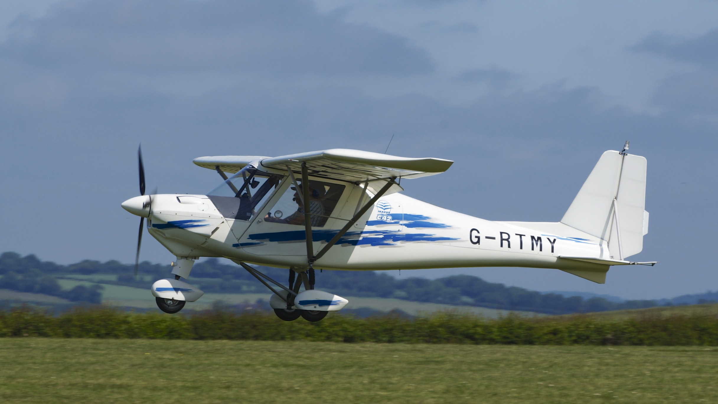 The busiest day ever in the history of this charming airfield. A hot sunny day was the icing on the cake!